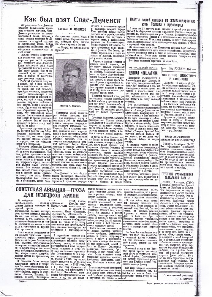 Red Army newspaper "For the right thing!" Nr. 188-2 of August 15, 1943